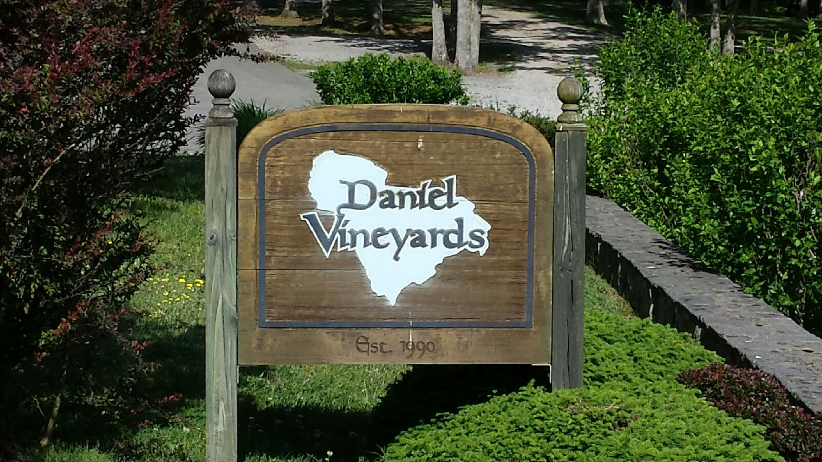 Daniel Vineyards' entrance sign in Crab Orchard, West Virginia.